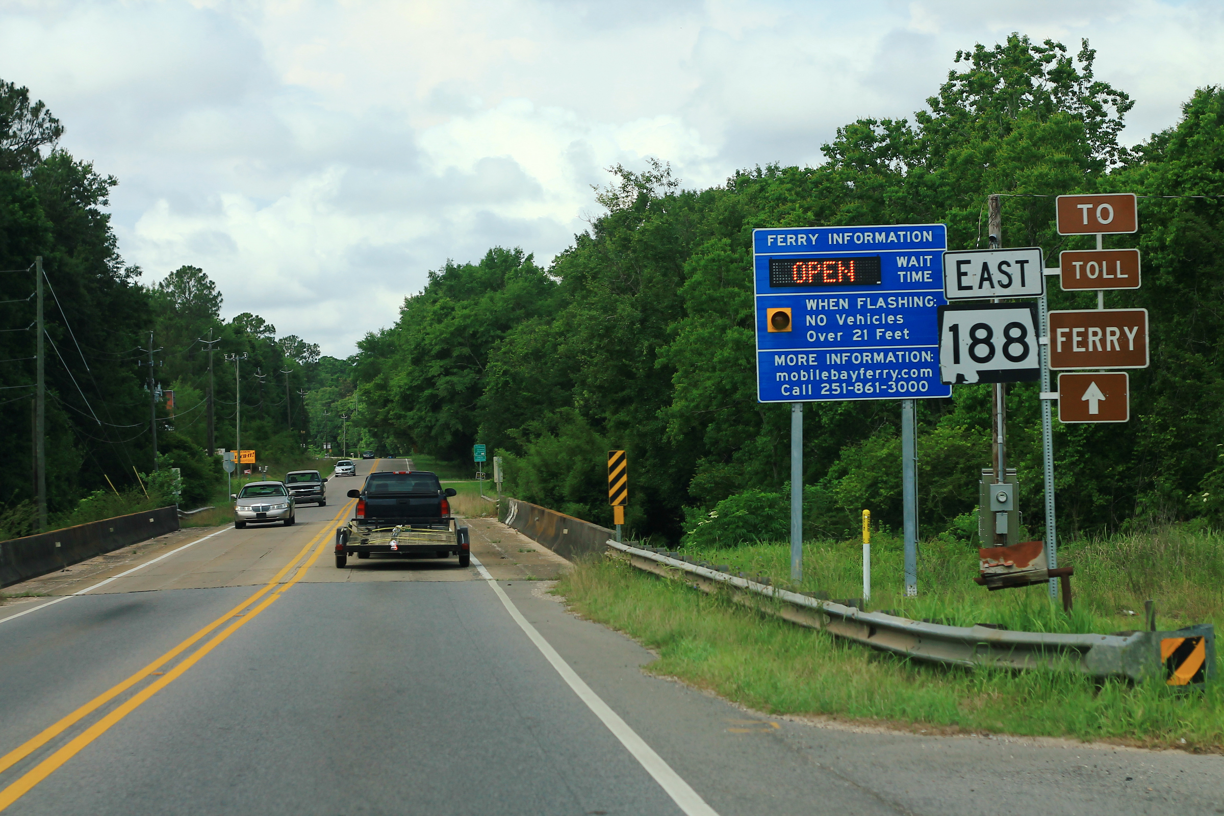 AL188 East to Ferry Signs